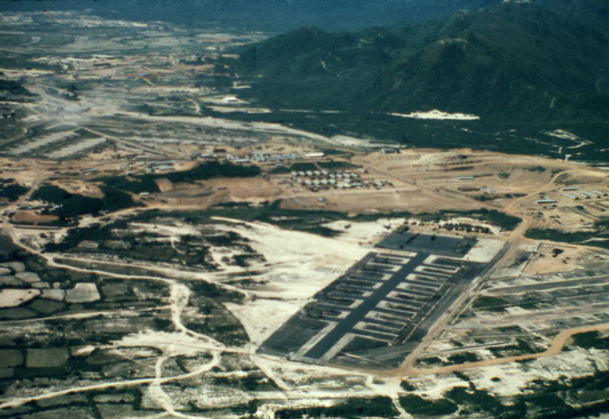 Lane Army Airfield west of Qui Nhon, C Company, 19th Engineer Battalion completed a maintenance hardstand area and 16 CH-47 pads on 12 April. M8A1 matting was used for the pads.